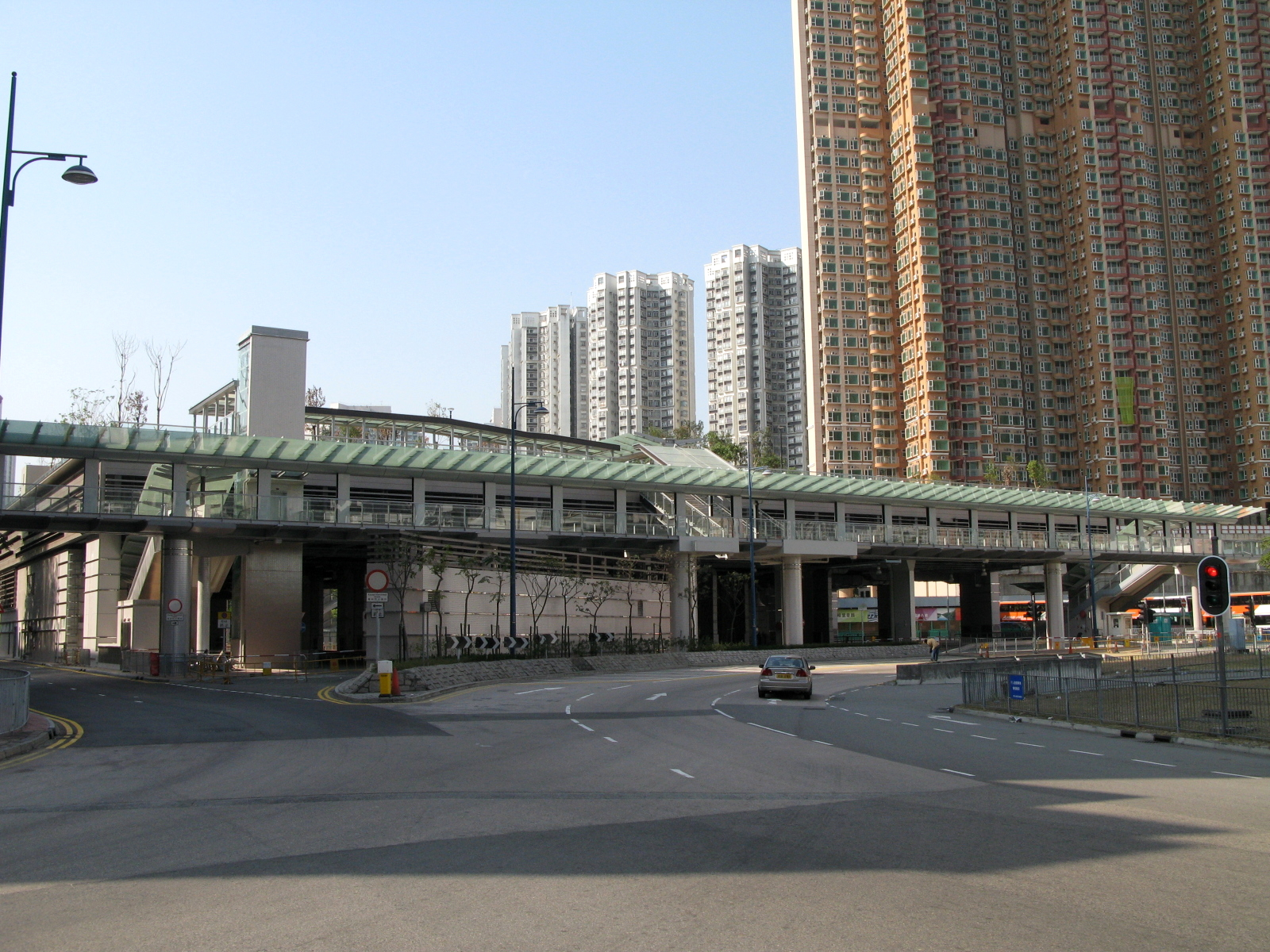 Tin Yan Road view to Tin Shui Wai Town Centre Bus Terminal